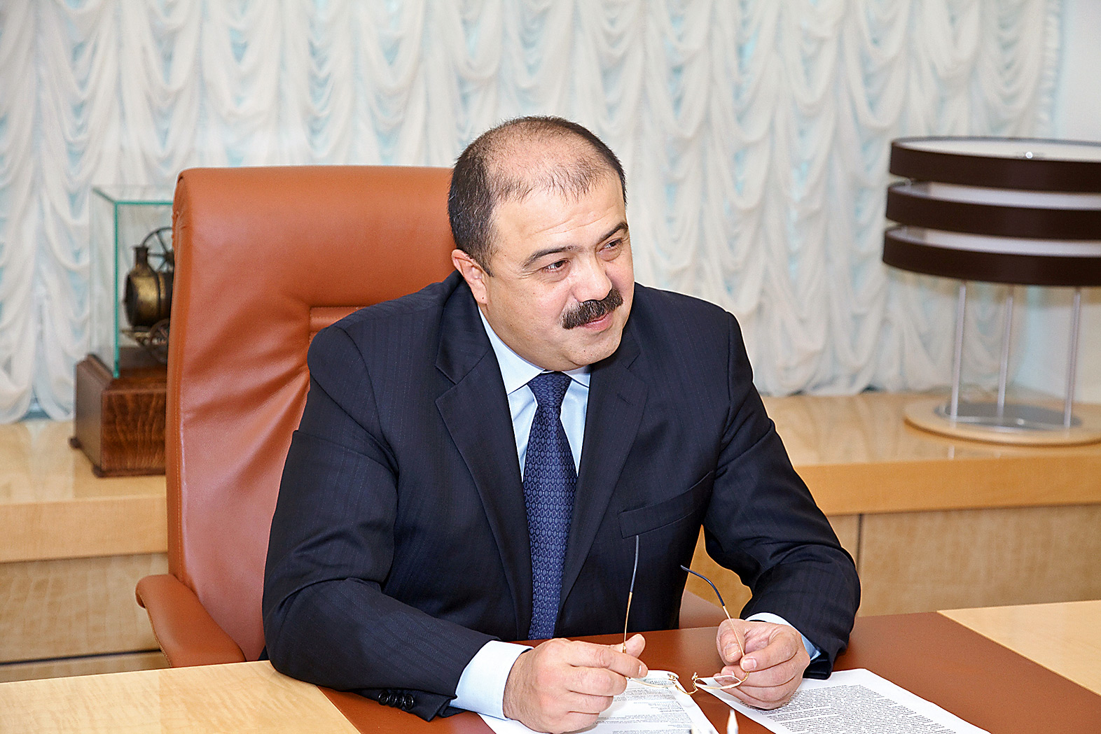 Mahmudov Iskandar Kahramonovich, president of UMMC